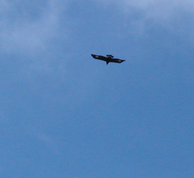 Taken while walking up Glen Catacol and into bird sanctuary.